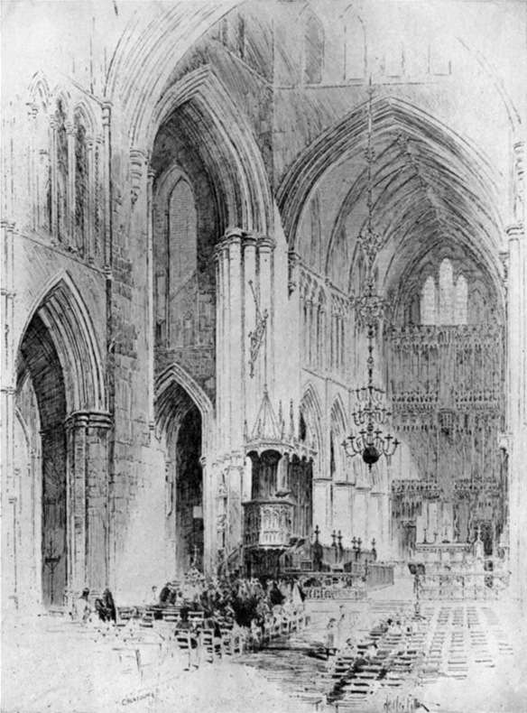 Etching of interior of Southwark Cathedral